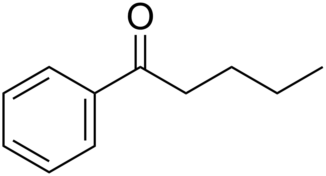 chemical structure of valerophenone